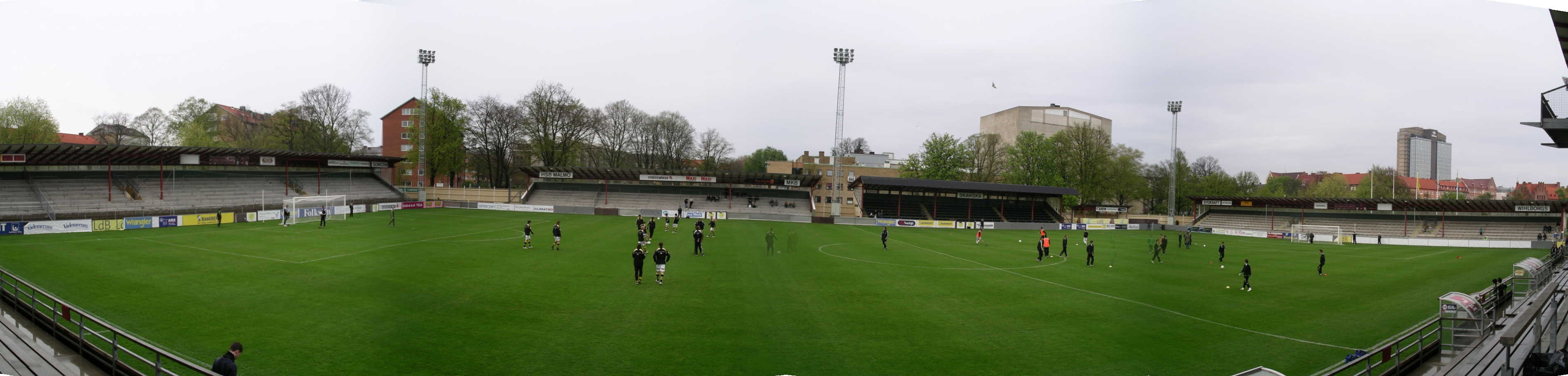 Panorama of Malmö IP (view from the South Stand)